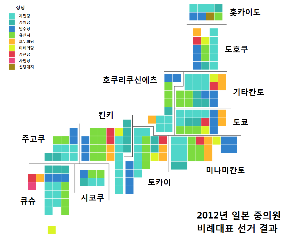 2012 중의원 비례대표